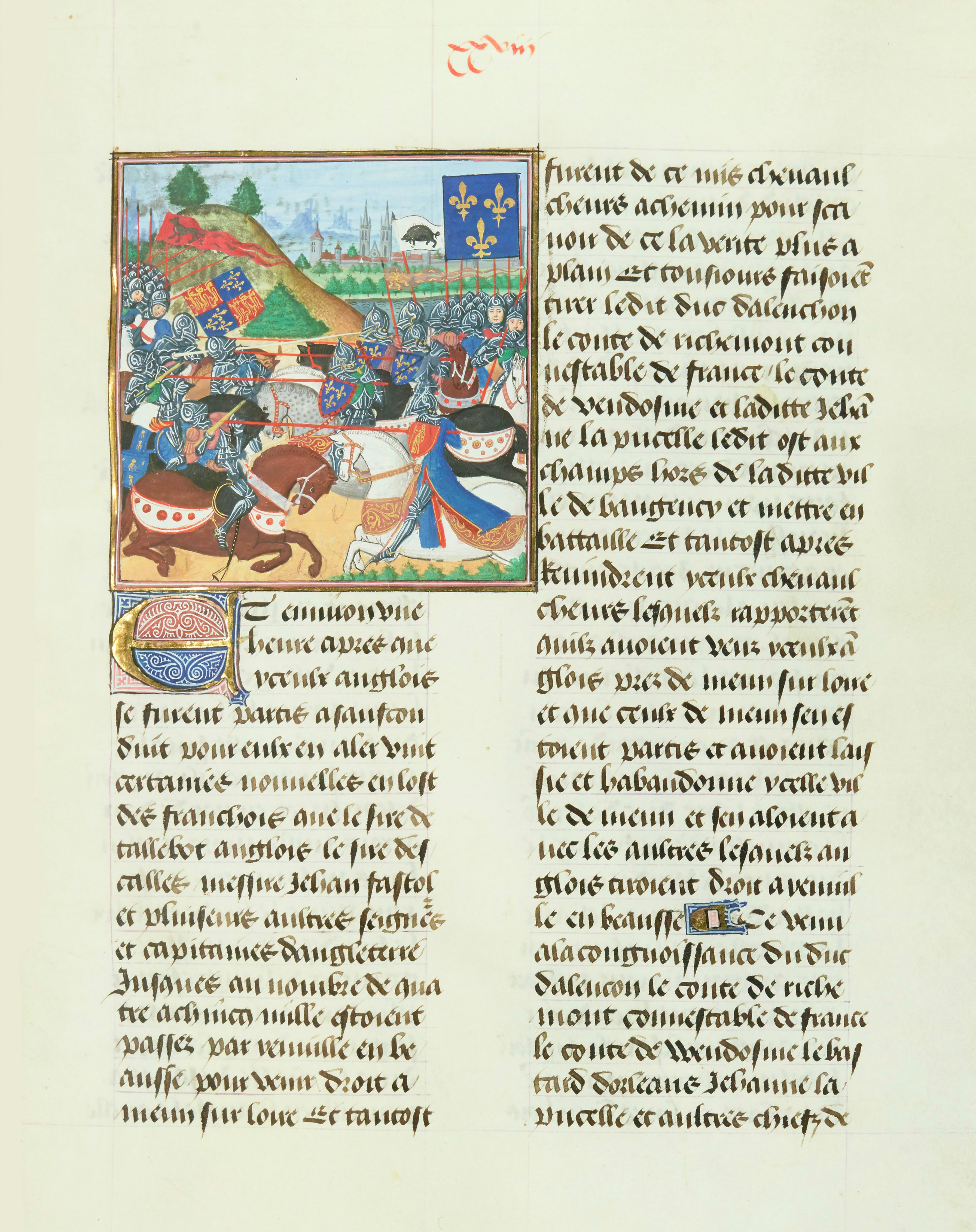 The Battle of Patay (18 June 1429).